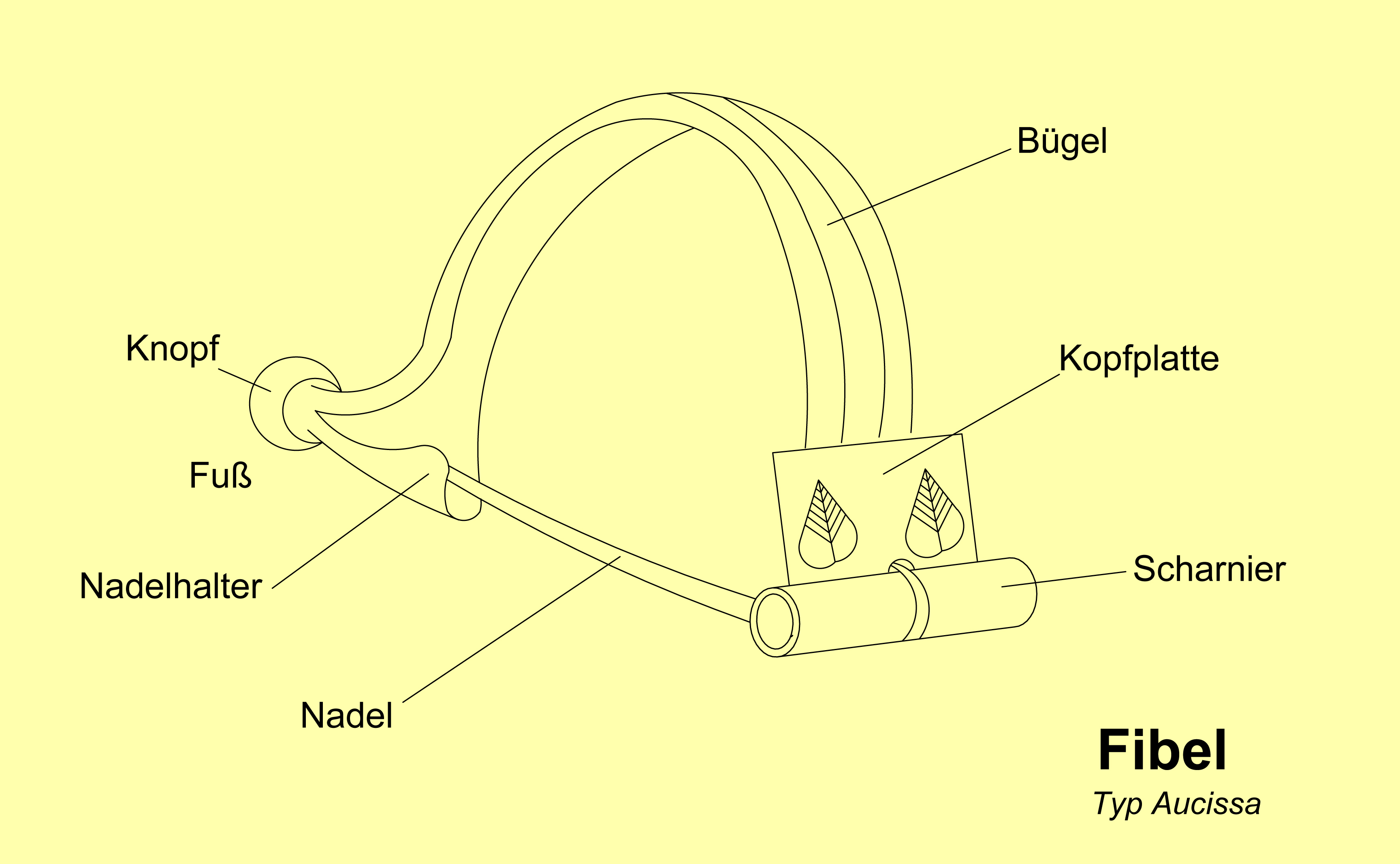 Schematic representation of an Aucissa brooch.